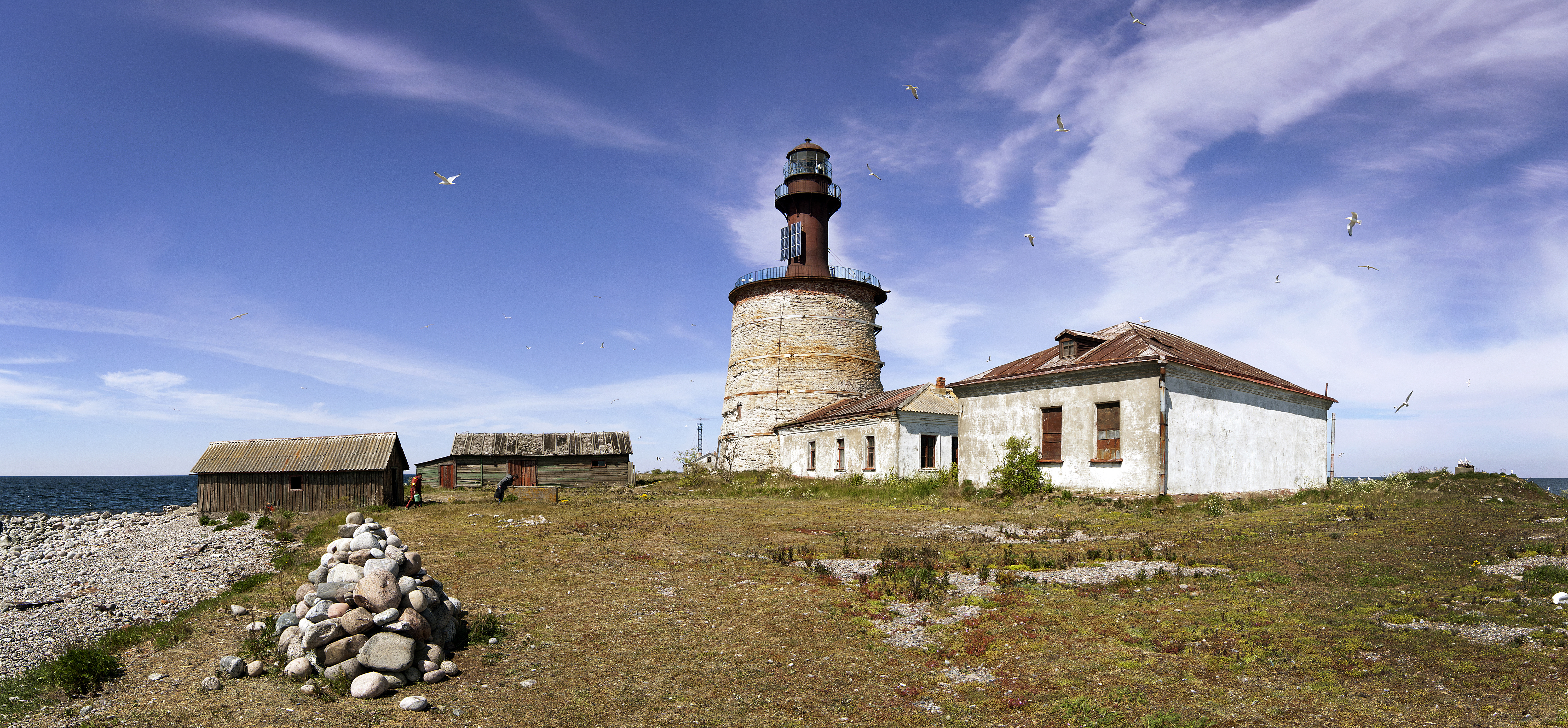 A lighthouse on the islet of Keri, Estonia.